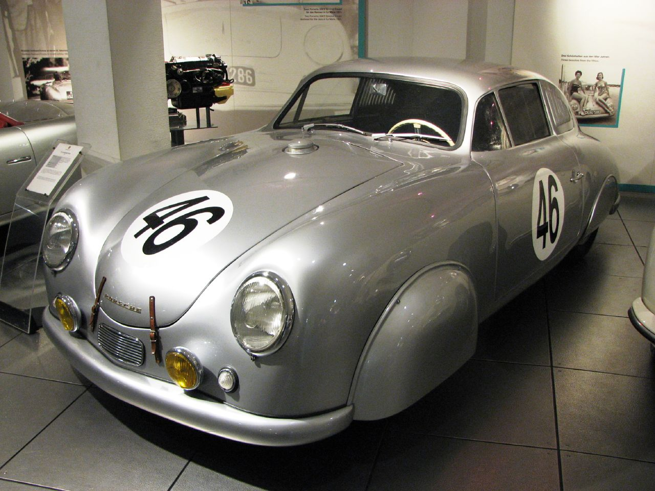 Porsche 356 1100 Alu Coupé 1951 Porsche Museum Native namePorsche-MuseumLocationStuttgartCoordinates48° 50′ 07″ N, 9° 09′ 06″ E Established1976 (old museum) 2009 (new museum)Web page control : Q328623 VIAF: 138511768 GND: 2087859-X SUDOC: 155641123